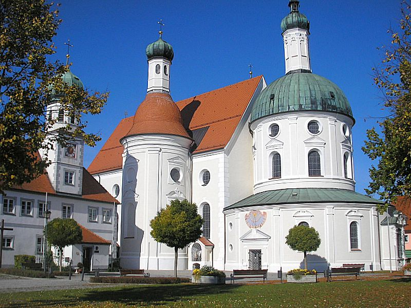 Pilgrimage church Klosterlechfeld near Landsberg am Lech, Bavaria, Germany. Total view.